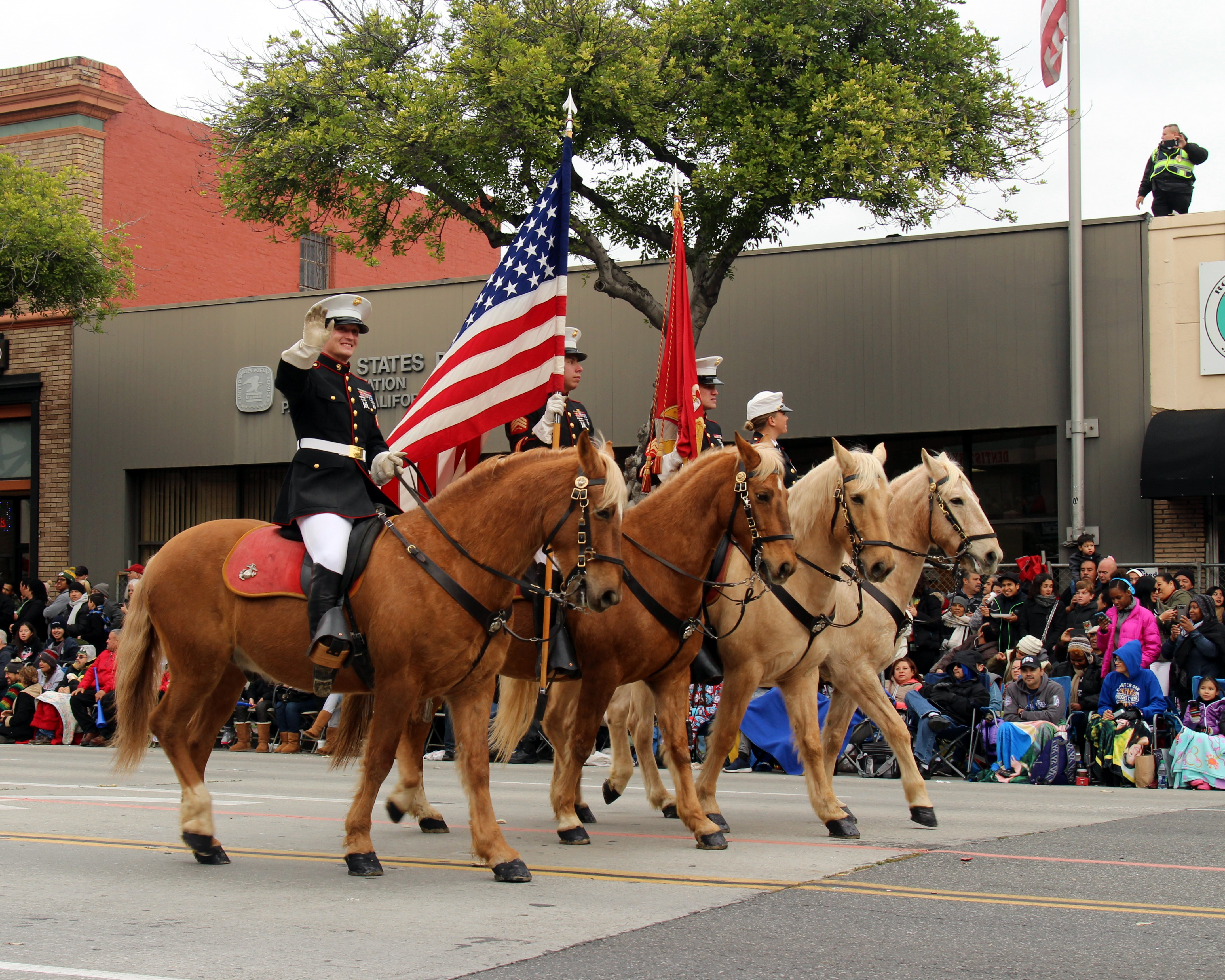 These Marines, based in Barstow, are mounted on mustangs from the Bureau of Land Management’s Adopt-a-Horse Program. The Corps is now the owner of these horses. The riders will be wearing Marine Corps Dress Blue Bravos. Rose Parade 2017 Pasadena, California